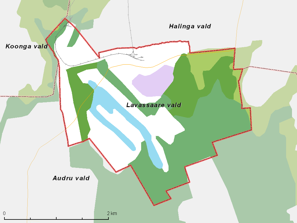 Map of municipality in Estonia